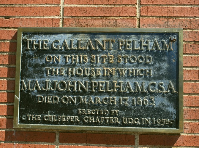 Culpeper VA, 201 North Main Street, site of J. Pelham's death